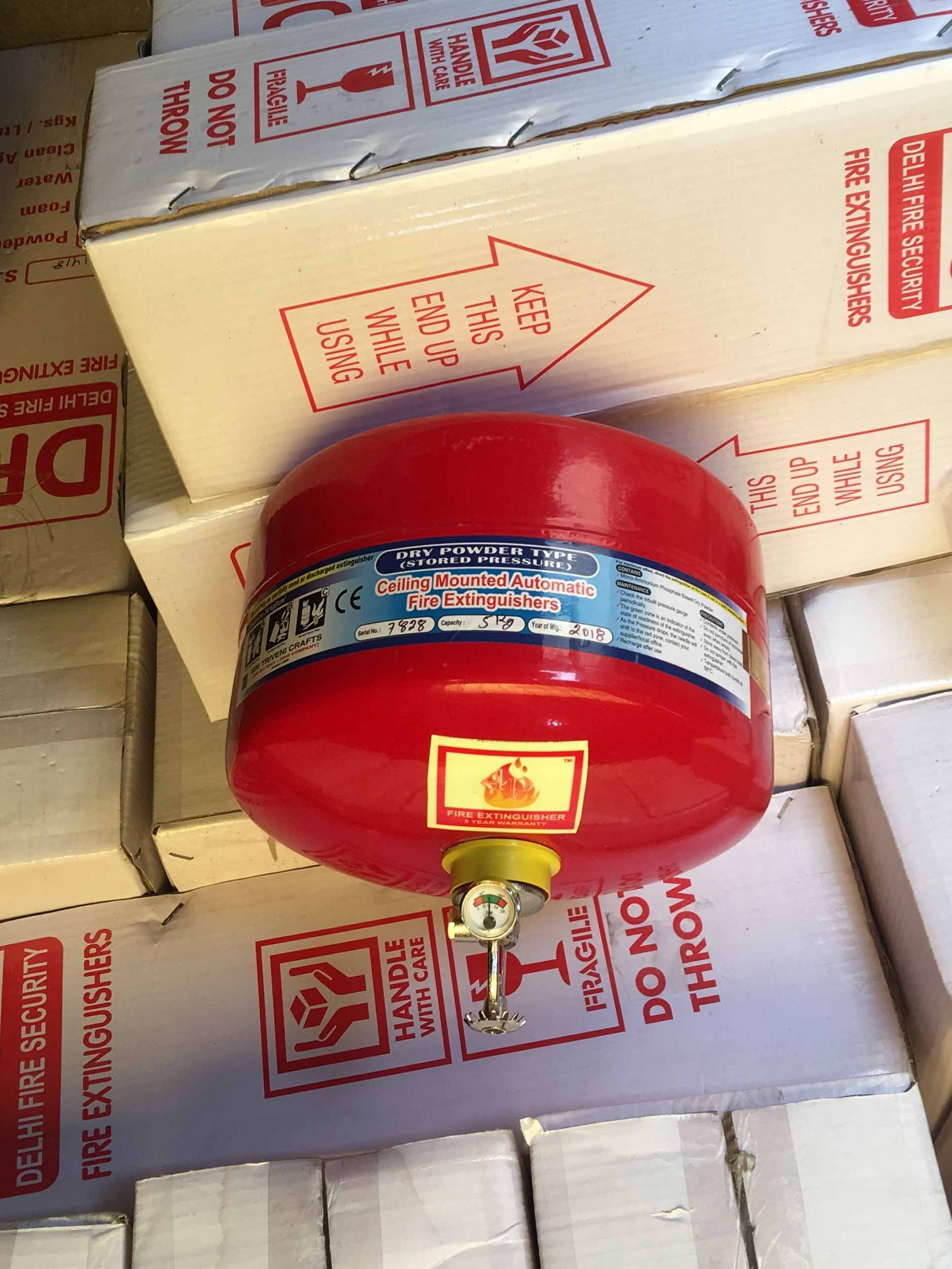 4p Fire Extinguisher, India’s most trusted fire machine with 5 year warranty. Call 8076705920